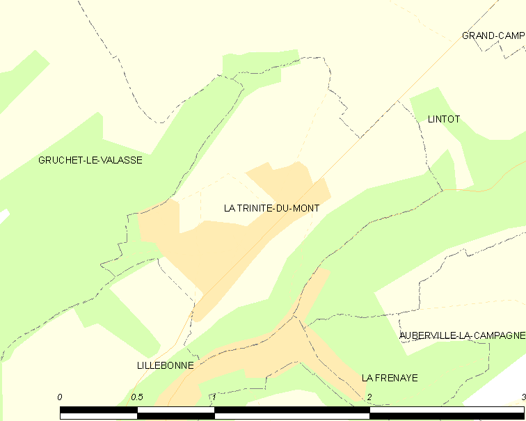 Map of French municipality La Trinité-du-Mont